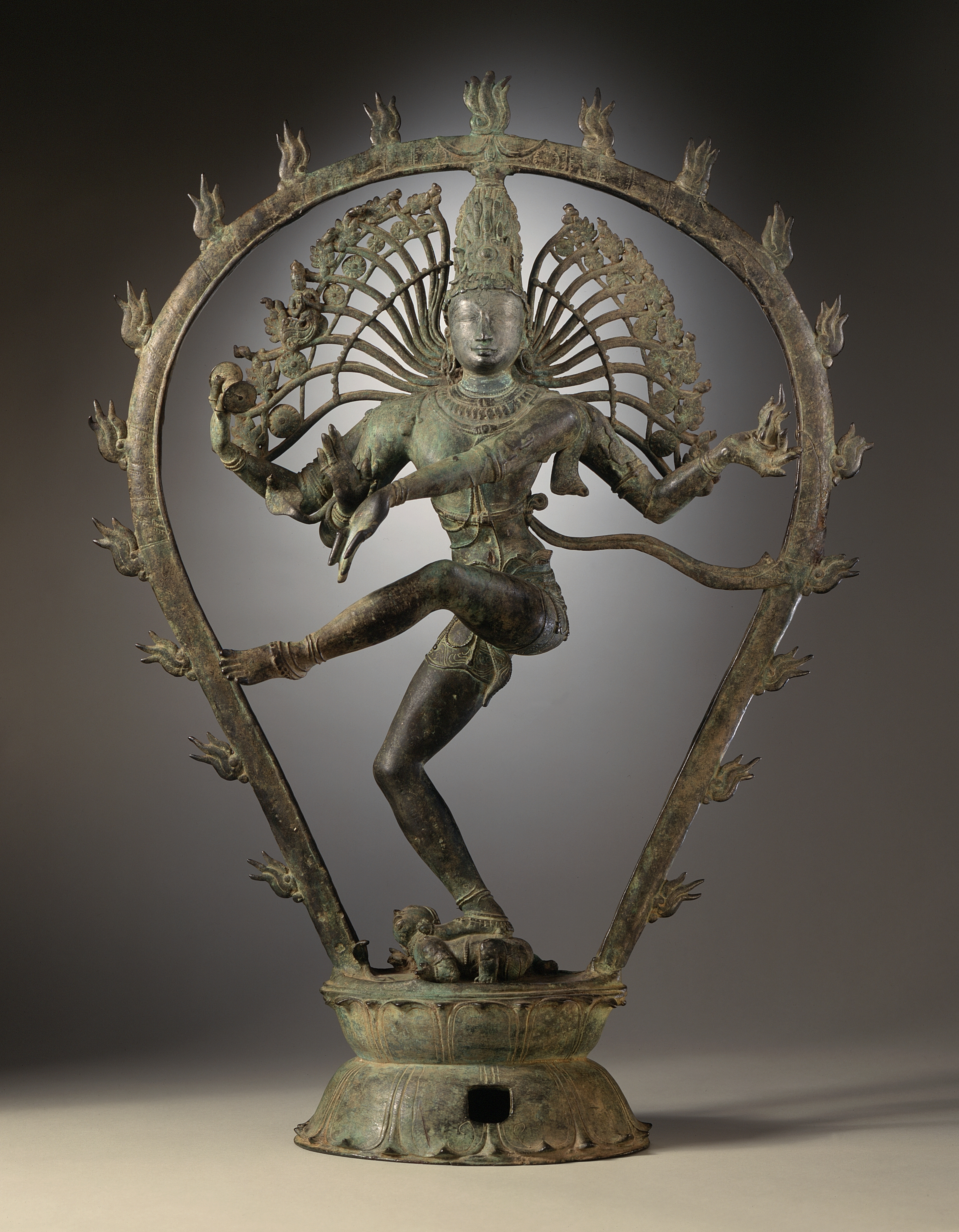 Sculpture of Shiva in copper alloy from India (Tamil Nadu).Dimensions: 30 x 22 1/2 x 7 in. Circa 950-1000. Dim :76.20 x 57.15 x 17.78 cm. Art of the Chola dynasty (IXe -XIIIe c.)